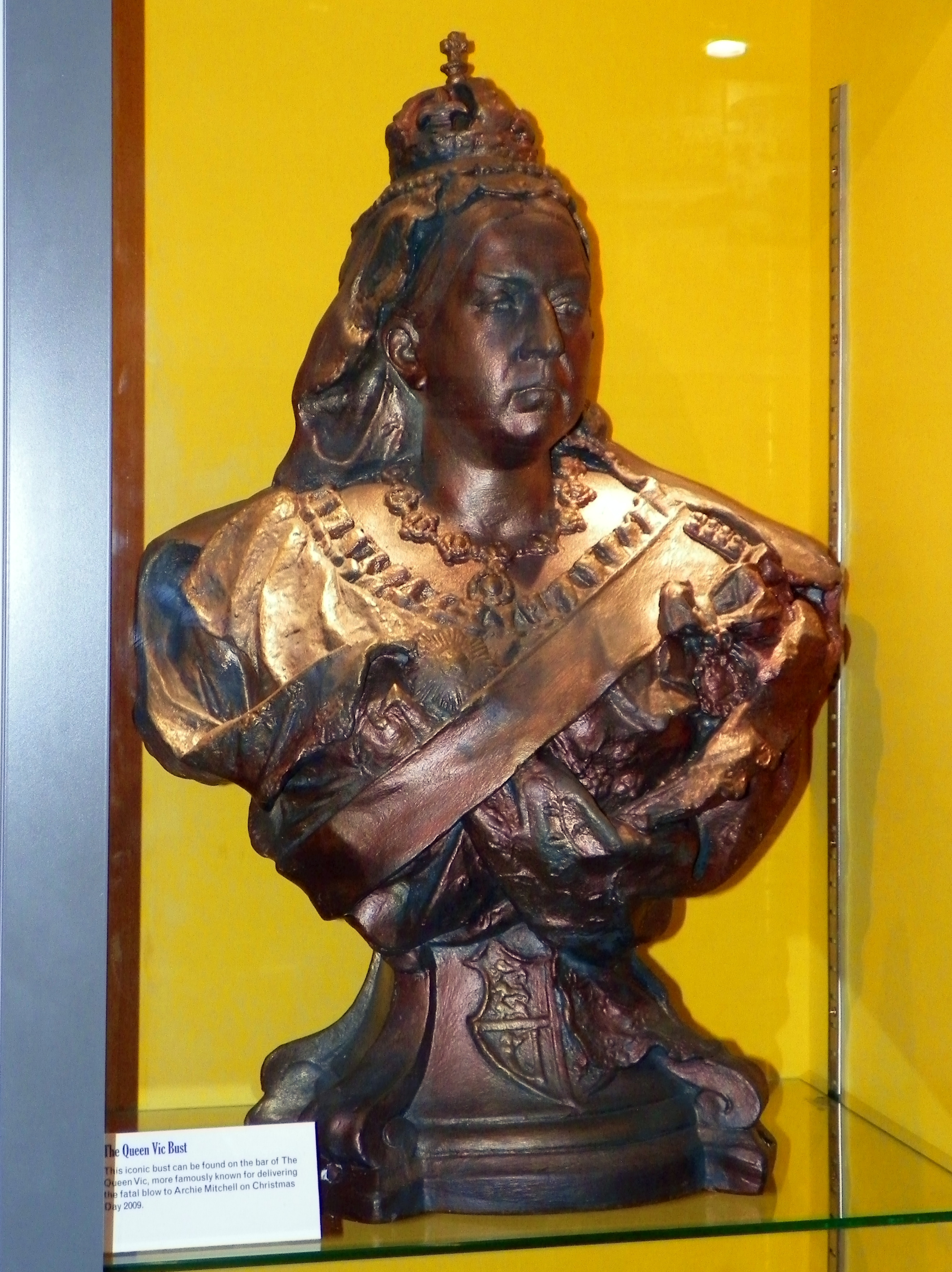 The Queen Vic Bust, a prop from the BBC soap opera EastEnders, on display at the "EastEnders at 30: In Our Manor" exhibition at the Elstree and Borehamwood Museum in Hertfordshire. The bust has adorned the bar in The Queen Victoria for many years and was the murder weapon in the "Who Killed Archie?" storyline of 2009 and 2010. Turned out Stacey Slater dunnit.